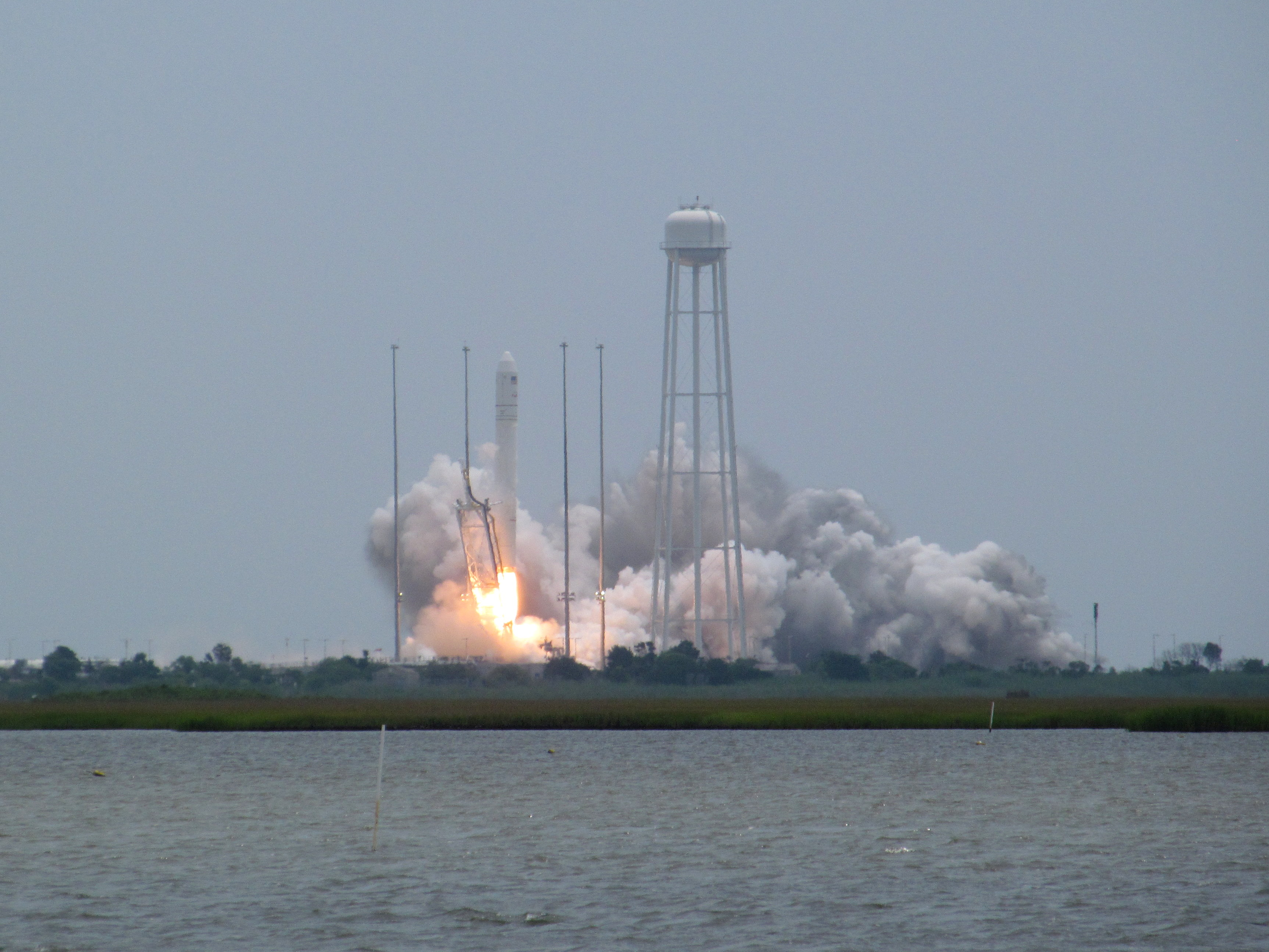 Liftoff of CRS Flight 2 on an Orbital Sciences Antares booster in the 120 configuration